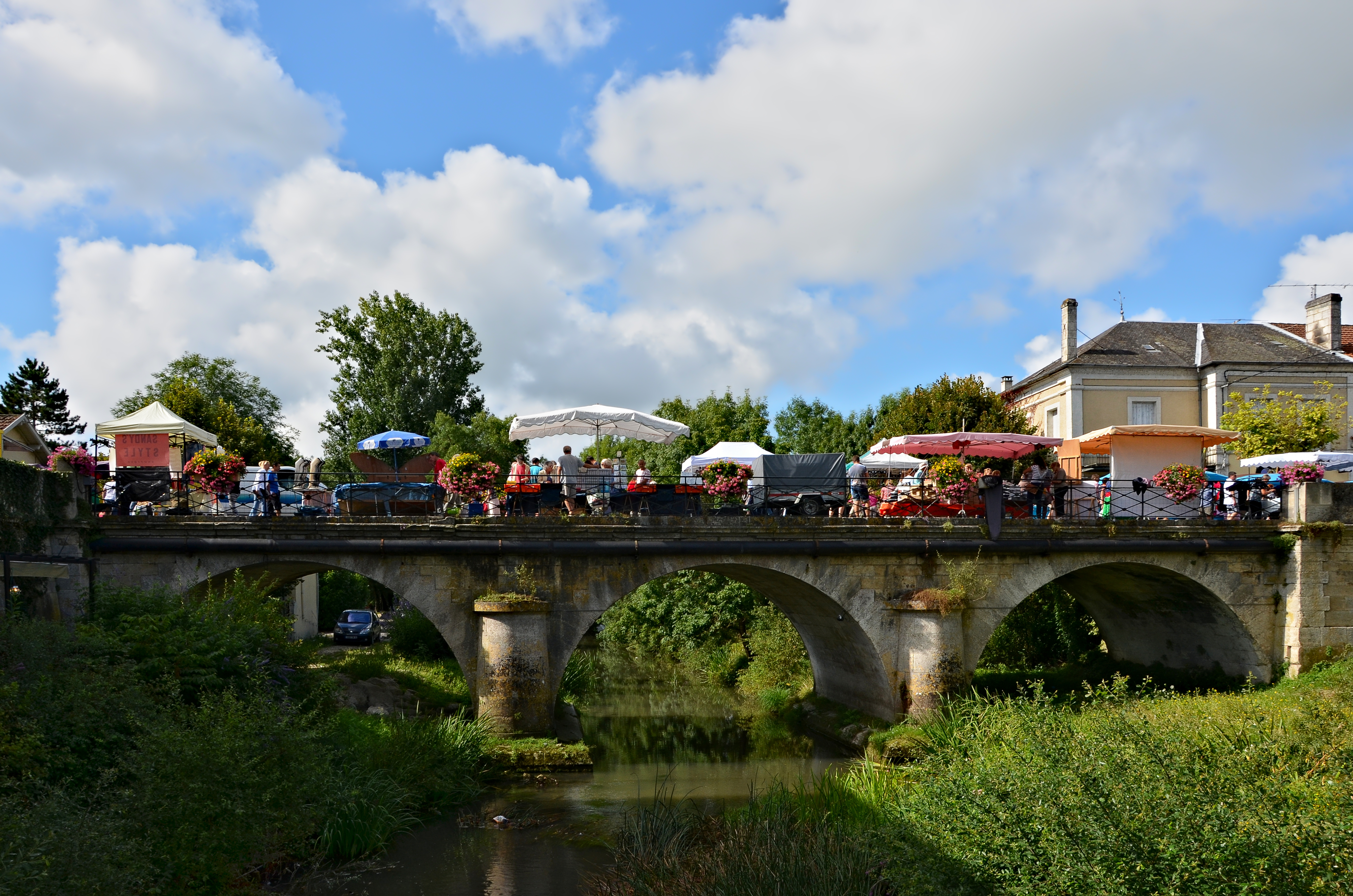 Bridge over the river Tude on a market day, Chalais, Charente, France.